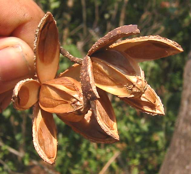 Fruit of Cedrela odorata. It releases winged papery seeds.